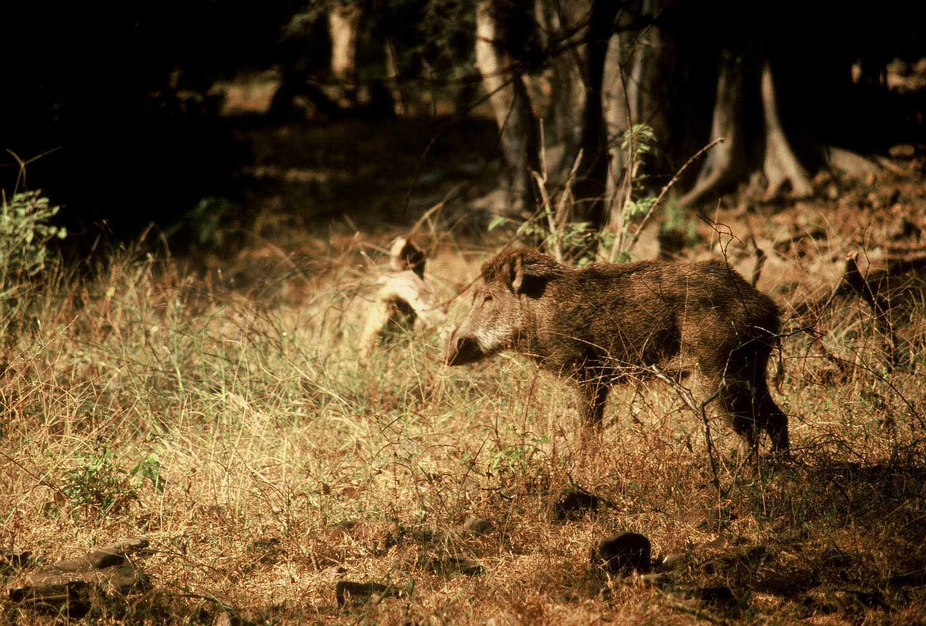 Wild boar at Ranthambore National Park, India